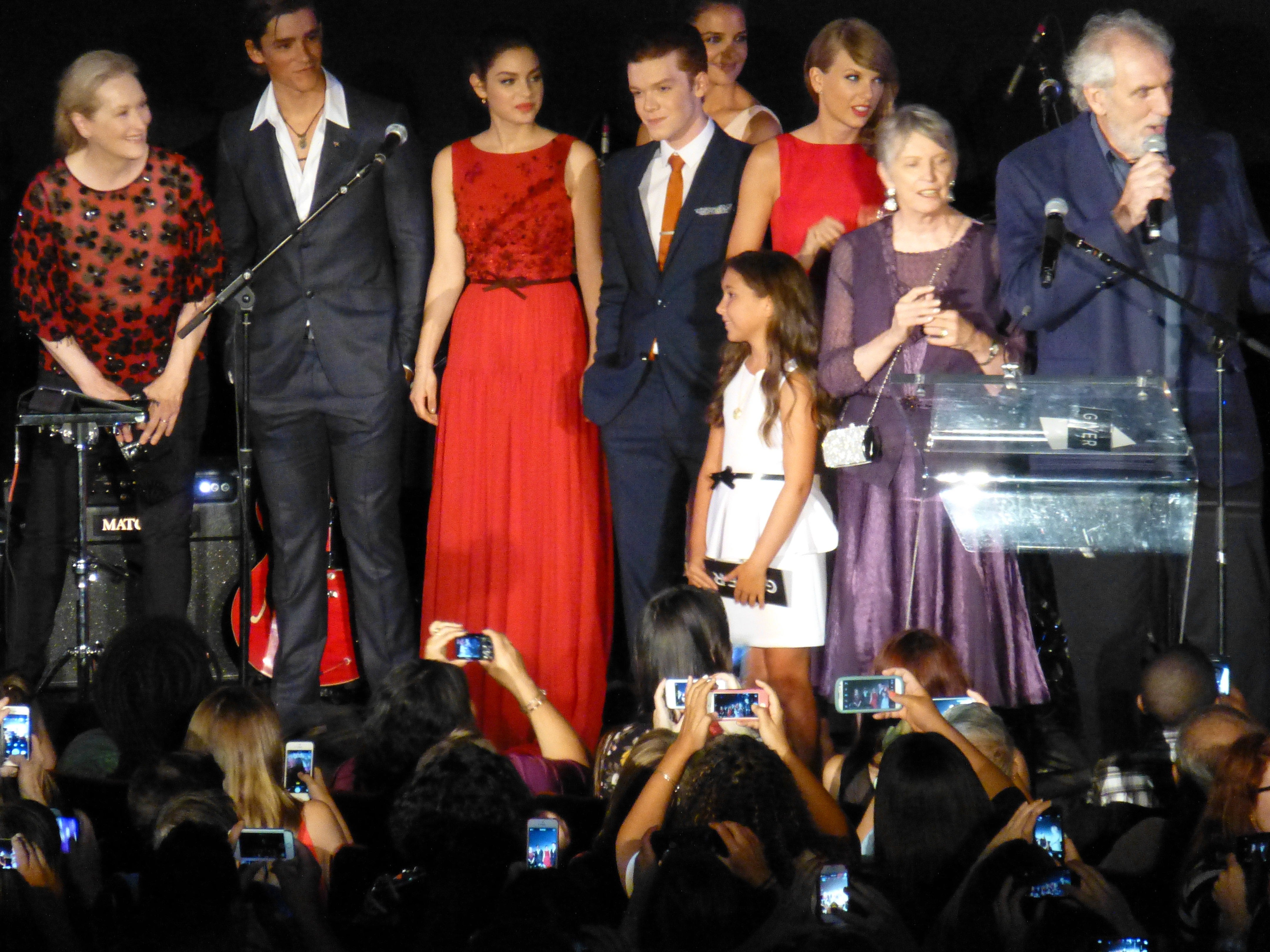 The cast of 'The Giver' at the New York Premiere